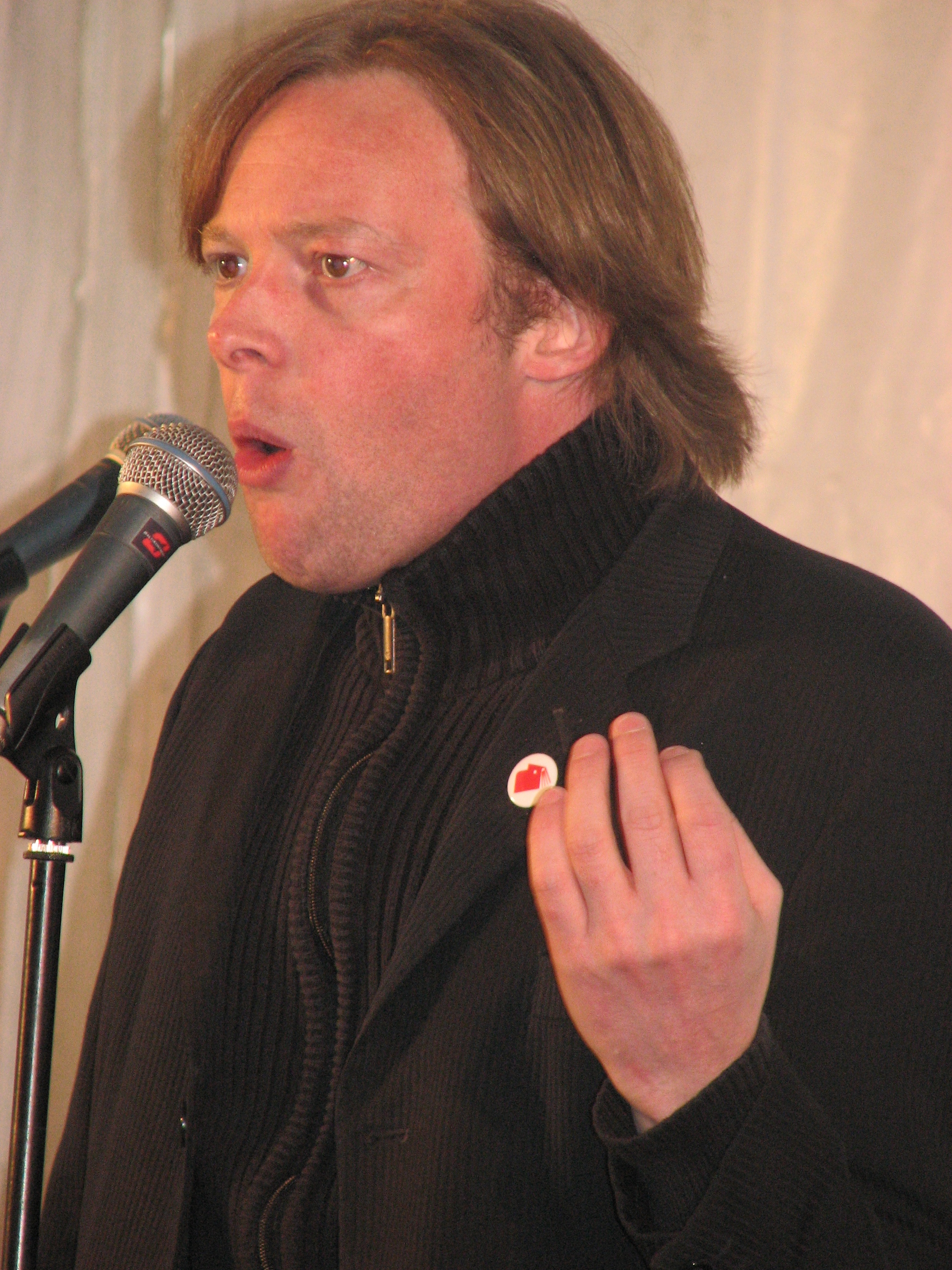 Wehwalt Koslovsky performing in Tallinn Literature Festival HeadRead.